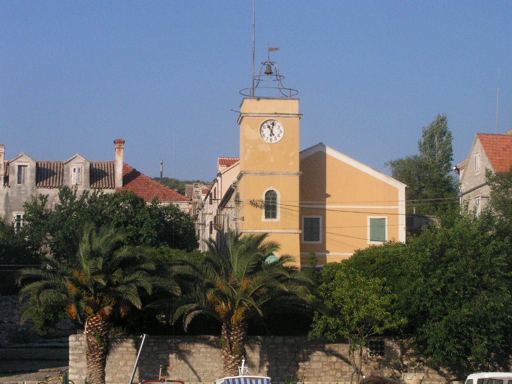 Belfry in village Zlarin, Zlarin island Croatia